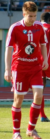 Rok Elsner